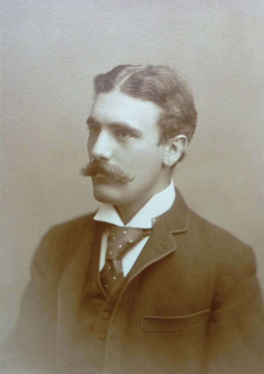 Studio portrait of Walter Myers, c.1895, by Harold Baker (1860-1942)